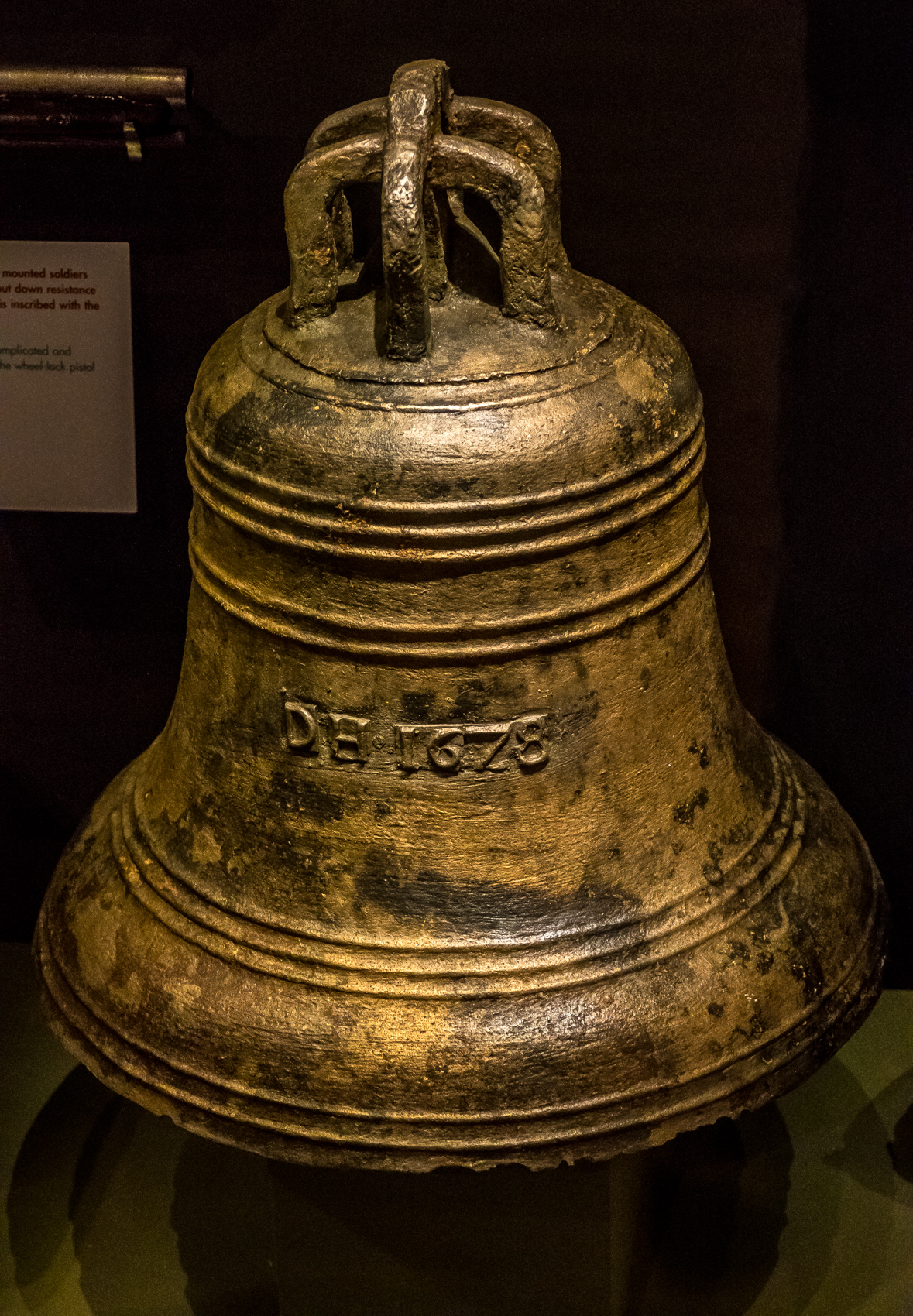 HMS Dartmouth Ship's Bell - Wrecked off Mull in 1690. National War Museum, Edinburgh Castle, Scotland.